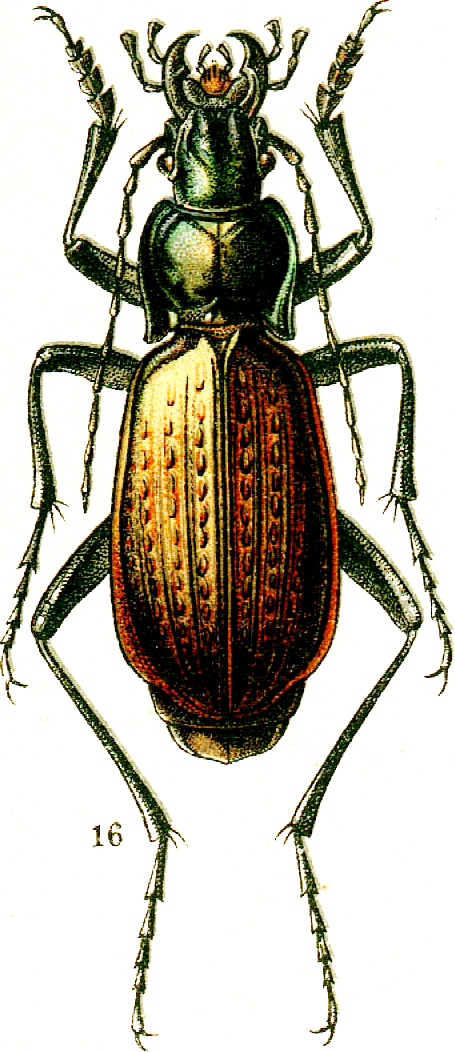 This file has been extracted from another file: Jacobs01.jpg